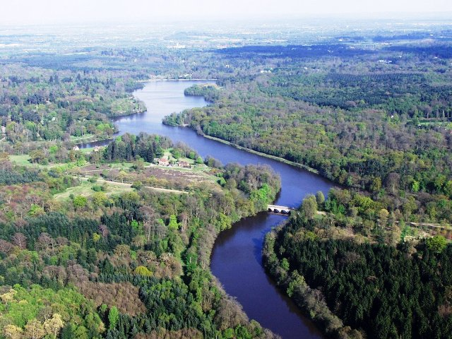 Aerial view of Virginia Water Lake and adjoining public parts of Windsor Great Park.